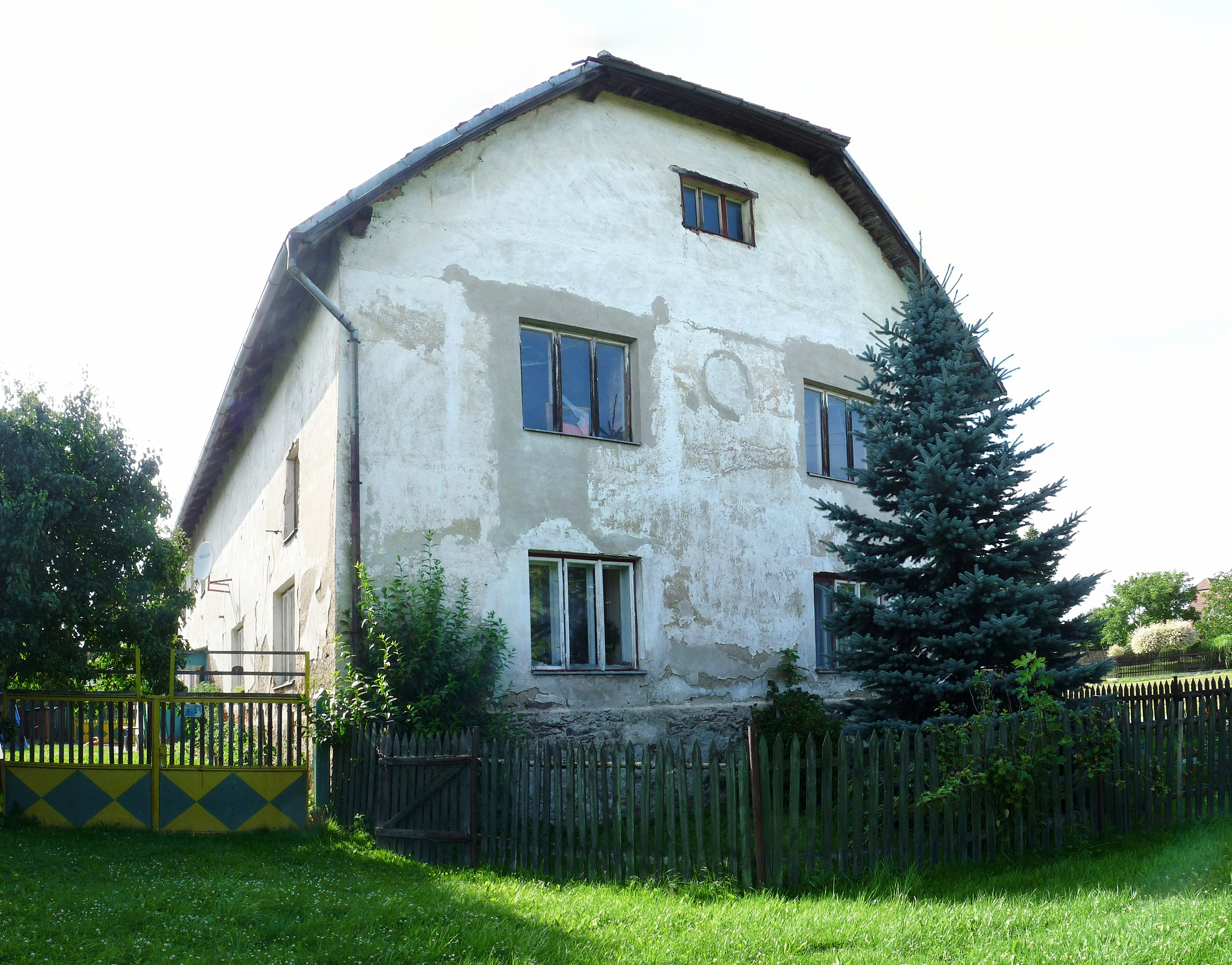 Former synagogue in the village of Babčice, Tábor District, Czech Republic as seen from the east.